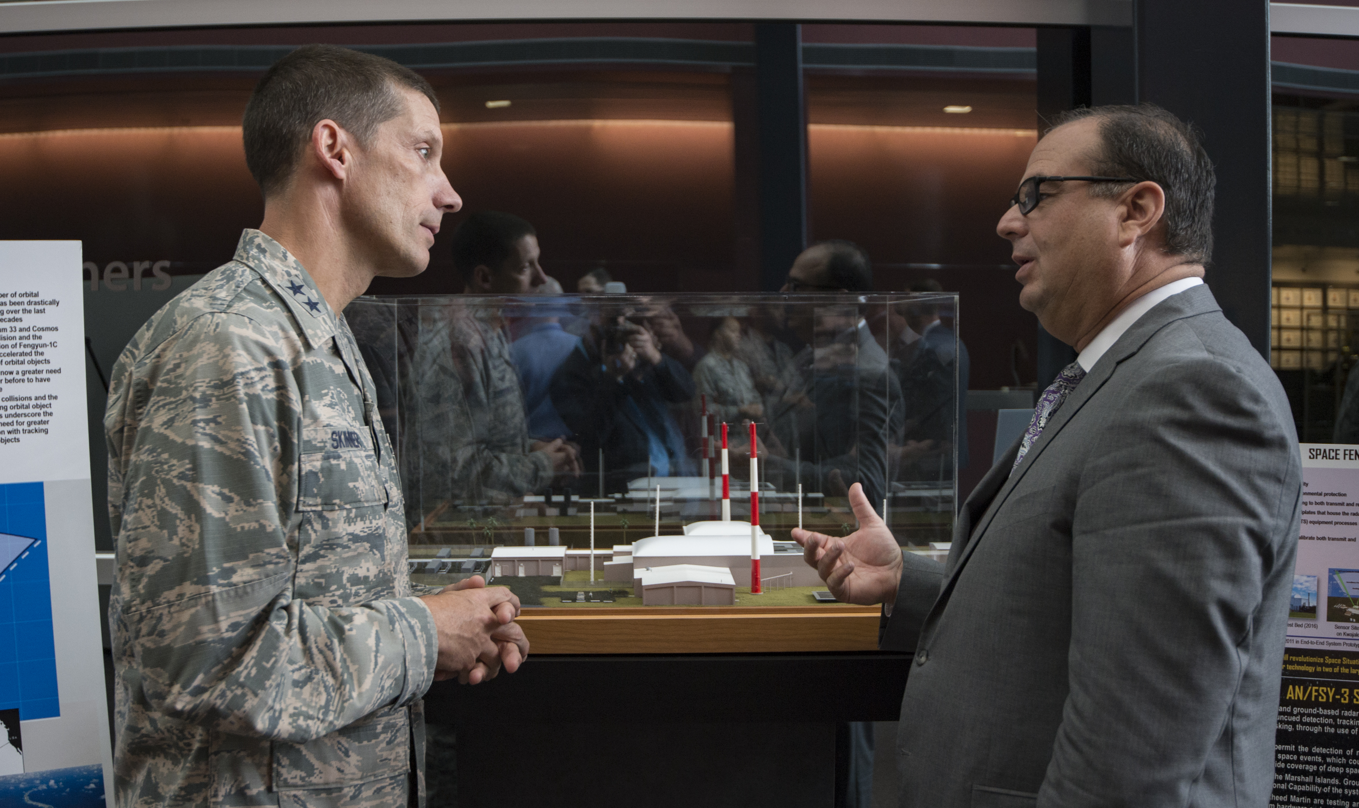 PETERSON AIR FORCE BASE, Colo.- U.S. Air Force Maj. Gen. Robert Skinner, Deputy Commander of Air Force Space Command, accepts a model of the Space Fence radar site at Peterson Air Force Base, Colo., Sep. 29, 2017. Greg Larioni (right), Vice President and General Manager of Radar and Surveillance Systems at Lockheed Martin, presented the model, which will be displayed at AFSPC Headquarters. The Space Fence system, now nearing completion at Kwajalein Atoll, is expected to dramatically enhance the Air Force's ability to identify and track objects in orbit. The 21st Space Wing will operate the system when it becomes fully operational, projected in 2019. (U.S. Air Force photo/Dave Grim)